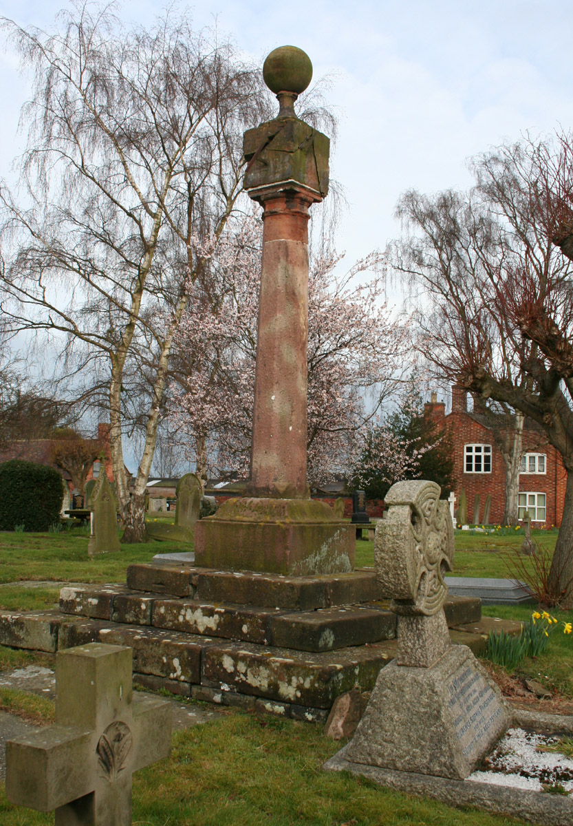 17th-century sundial in St Mary's parish churchyard, Acton, Cheshire